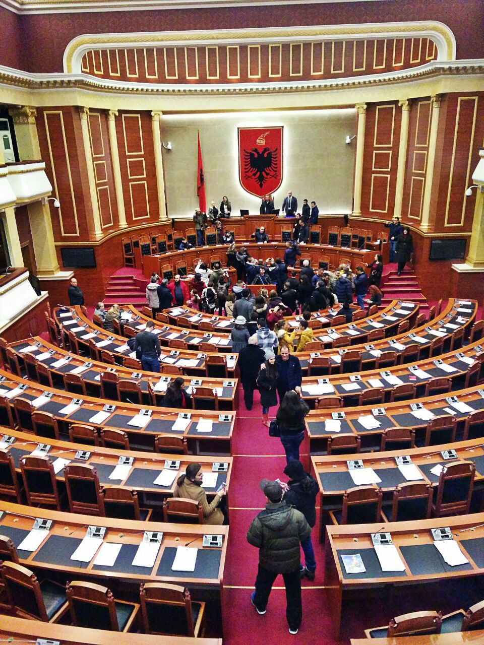 This is a photo from Albanian Parliament during the celebration of Independence day of Albania (29 November 2016). The parliament of Albania was open for everyone to visit during 27-30 November.